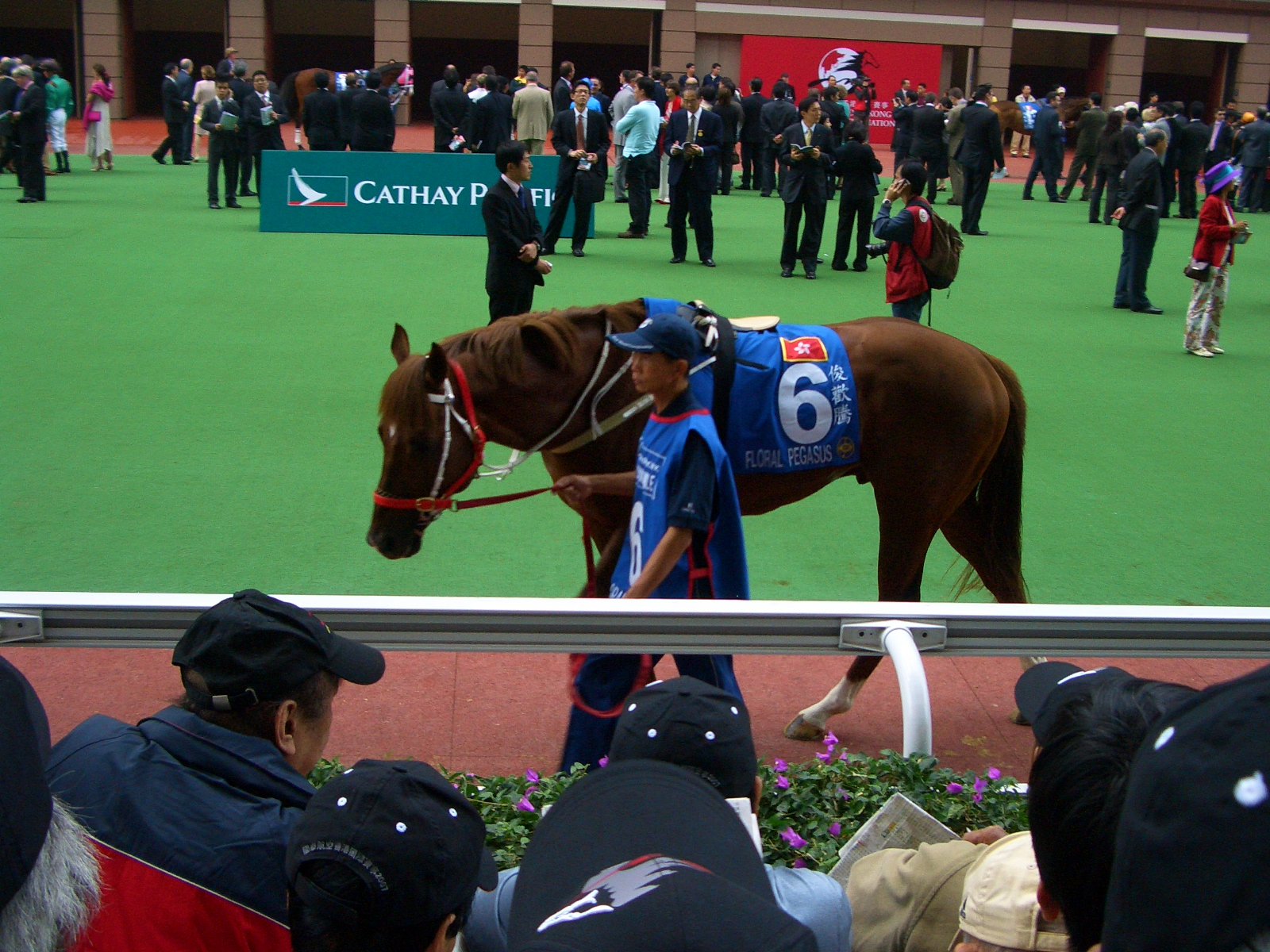 Floral Pegasus (Chinese:俊歡騰) started at 2007 Hong Kong Mile